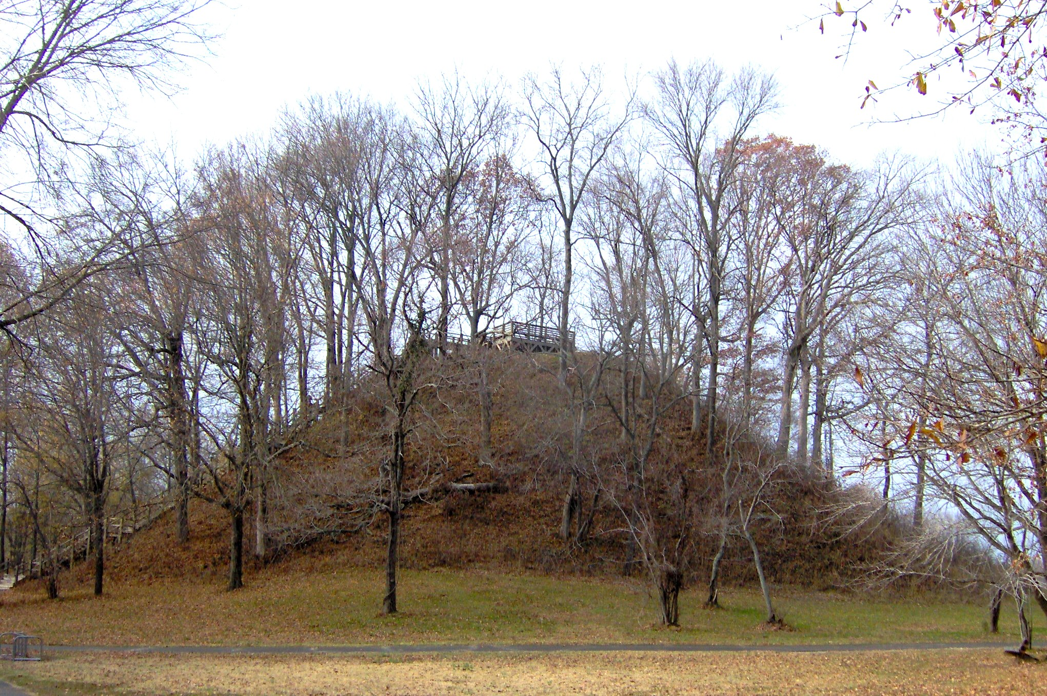 Mound 9 (commonly called Saul's Mound) at Pinson Mounds State Archaeological Park near Pinson, Tennessee. Saul's Mound is 72 feet high, making it the second highest prehistoric mound in the United States. The mound's four corners are aligned with the four cardinal directions, and is situated at the center of a 400-acre complex that includes at least 17 smaller mounds.